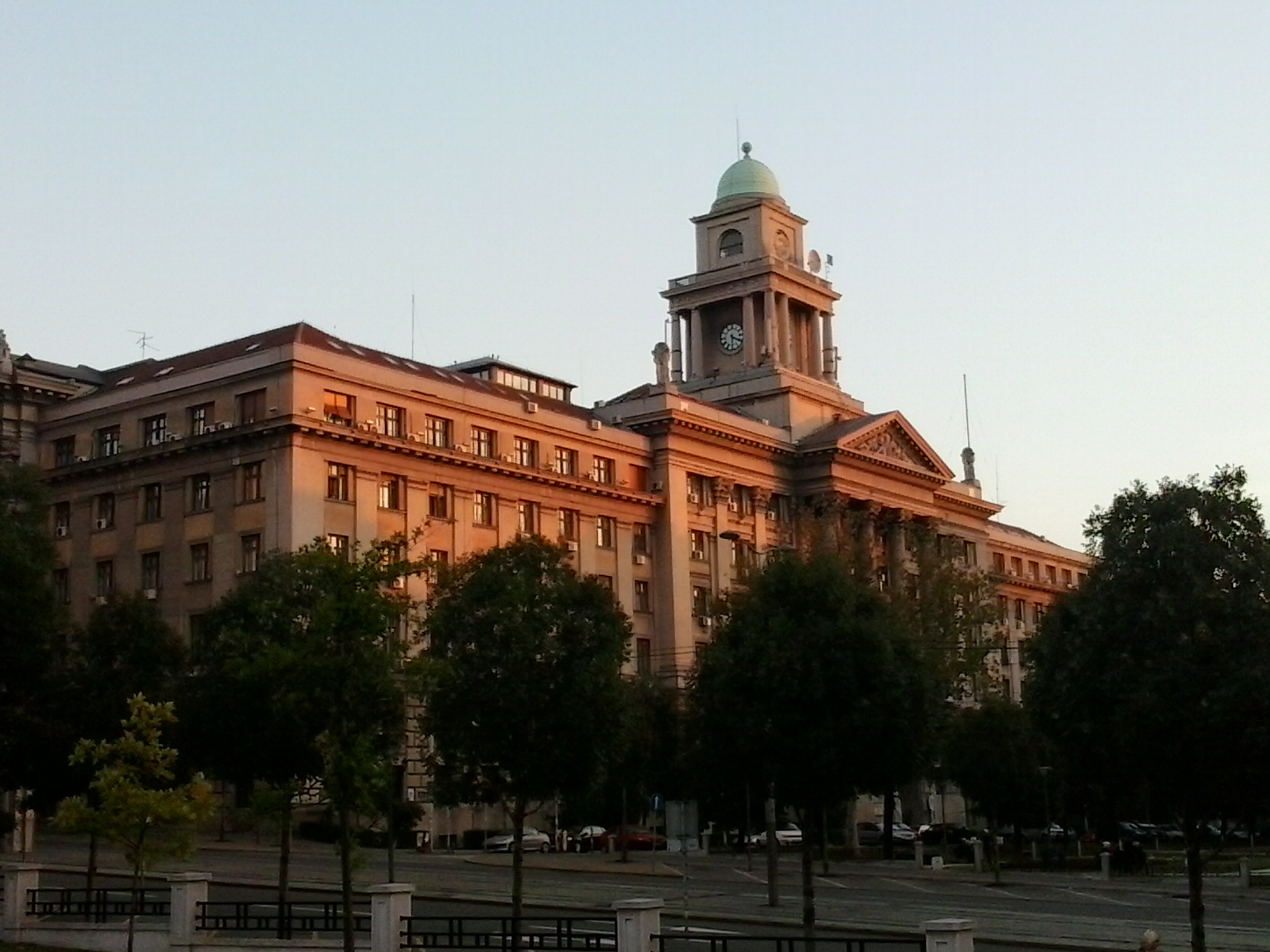 Former Serbian Ministry of Transport